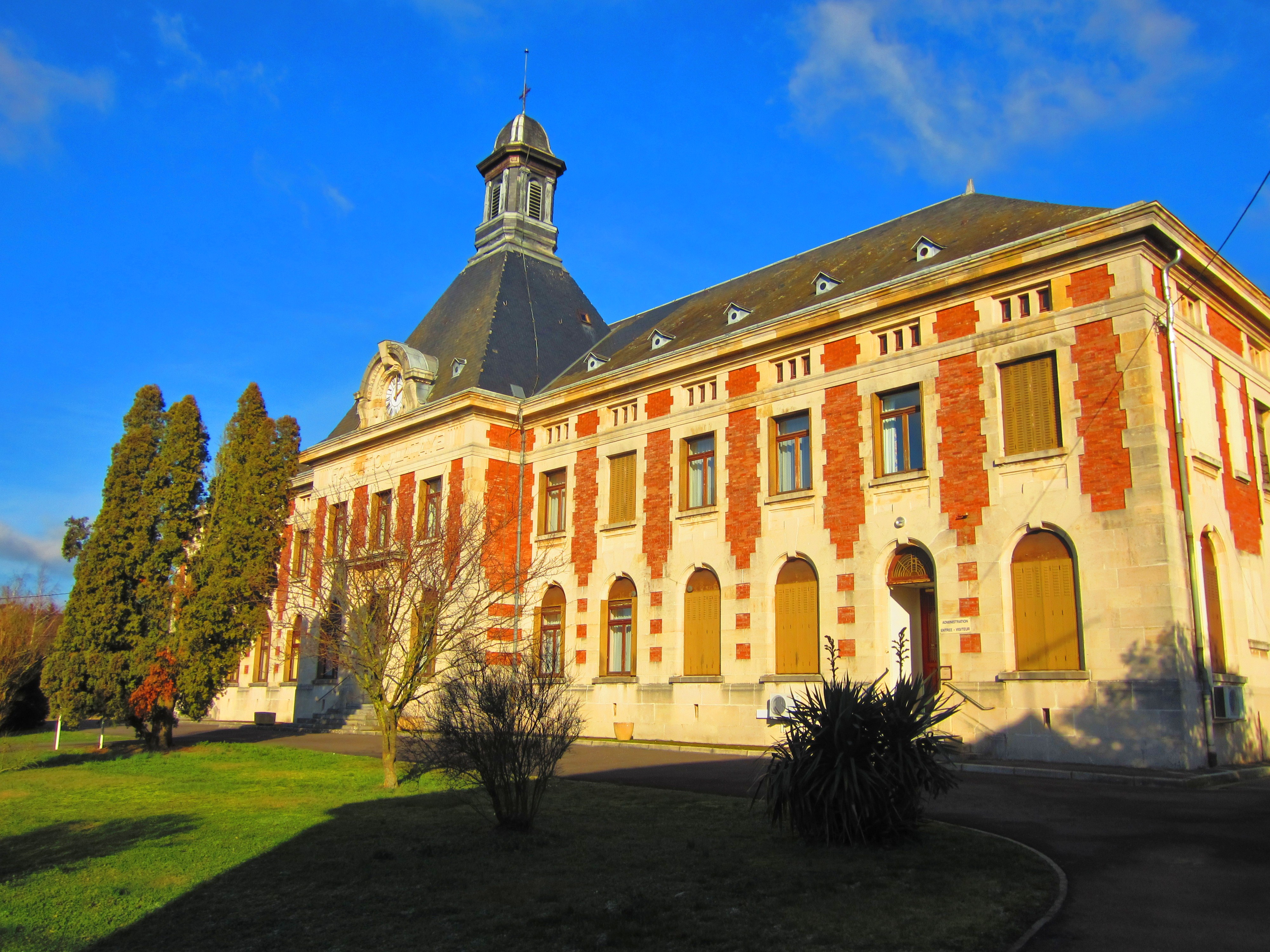 Etain retirement home Lataye